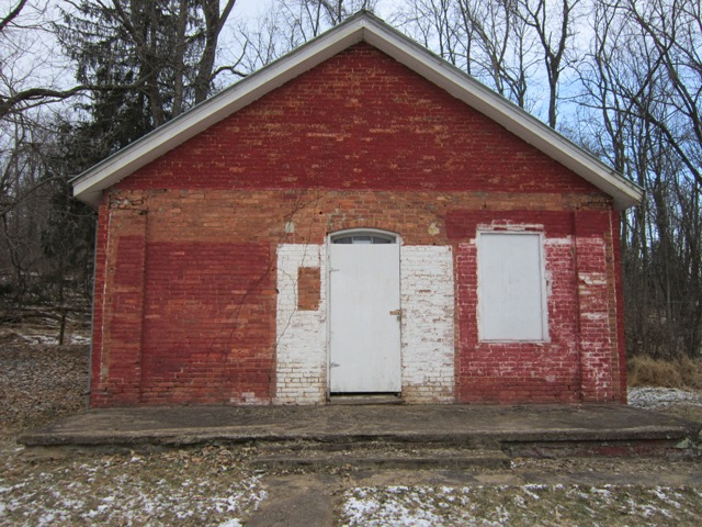 The four locks school, at Four locks, in Maryland along the Chesapeake and Ohio Canal